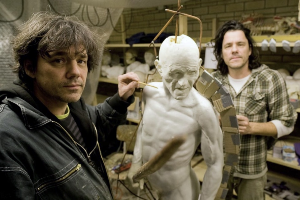 Ötzi while being constructed by the Kennis Brothers, 2011